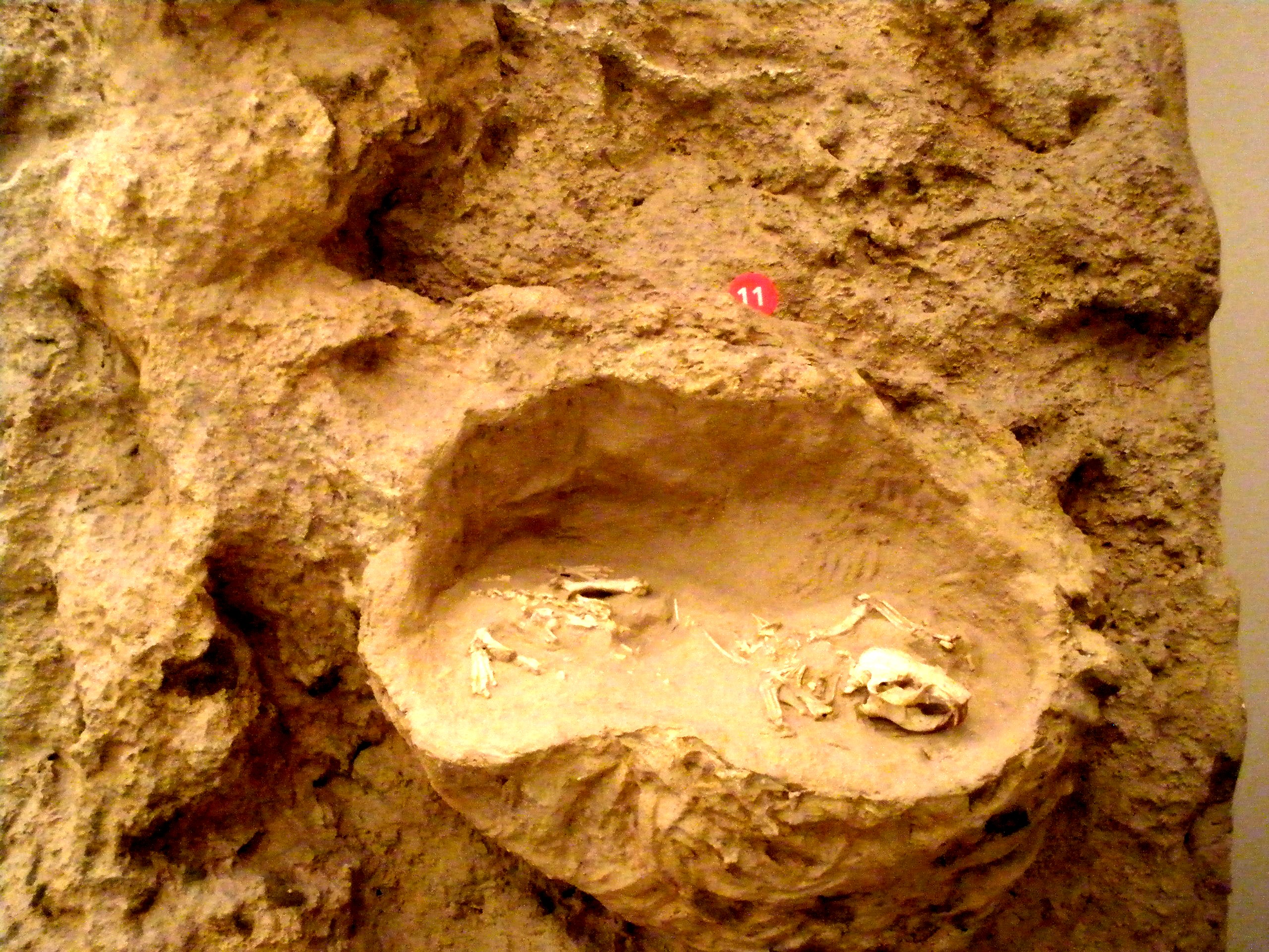 Fossil of Palaeocastor, a fossil beaver